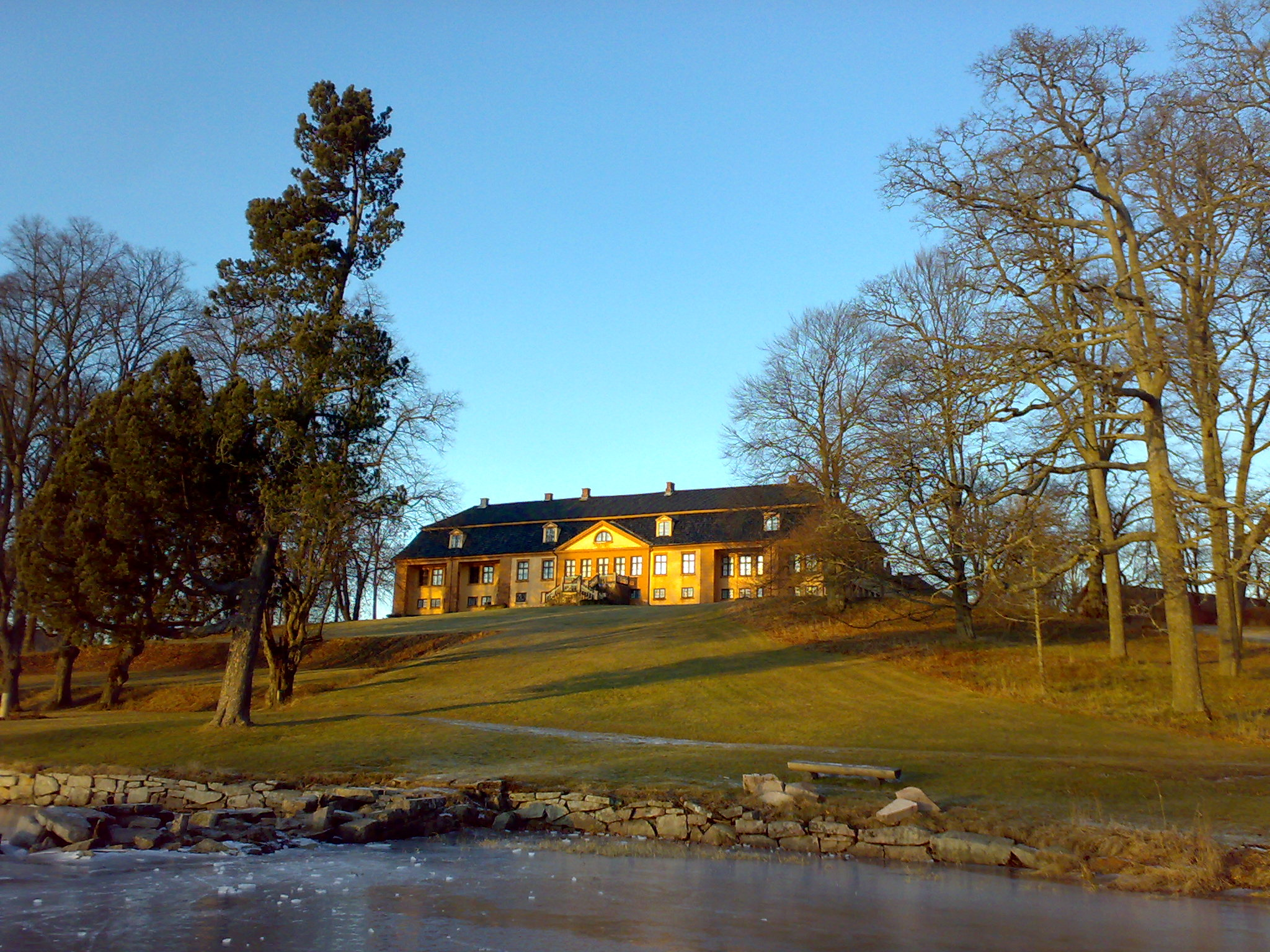 Bogstad manor, Oslo